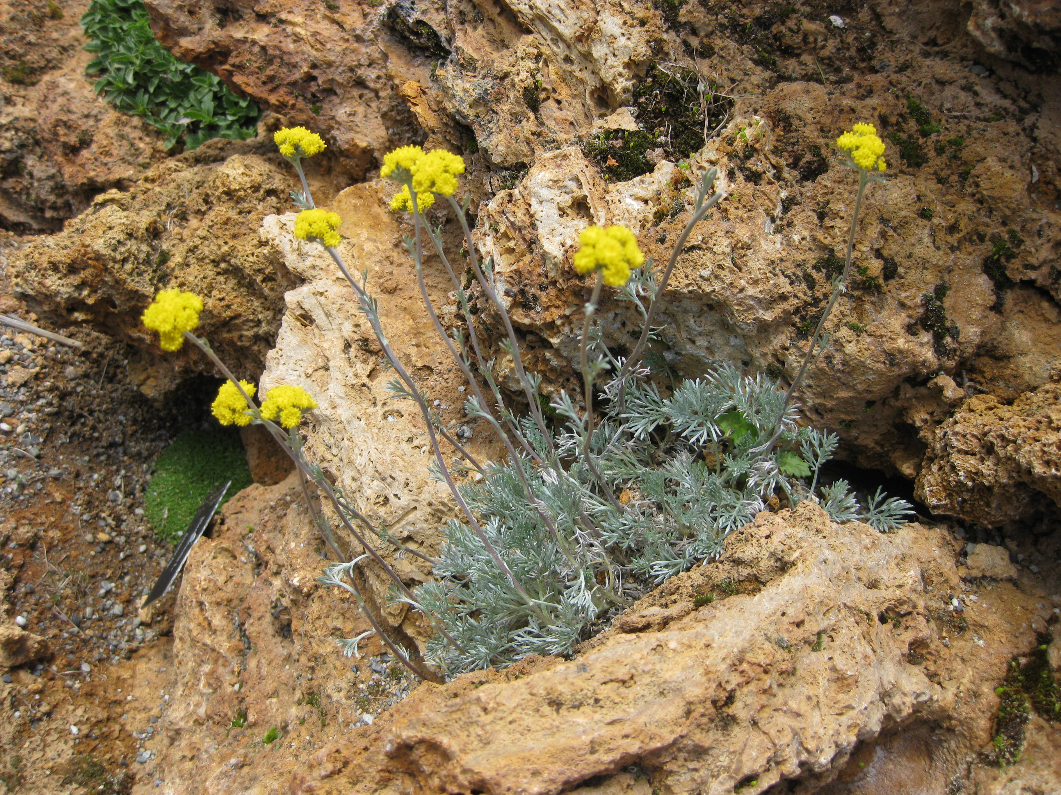 Artemisia glacialis in the Jardin Botanique Alpin du Lautaret